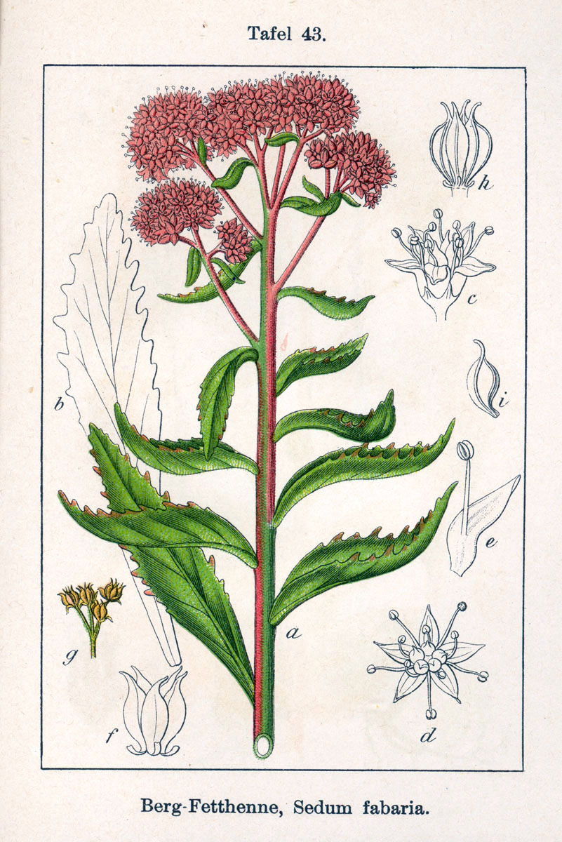 Hylotelephium telephium subsp. fabaria (W. D. J. Koch) H. Ohba, syn. Sedum telephium subsp. fabaria Kirschl., Sedum fabaria W. D. J. Koch , nom. illeg. Original Description Berg-Fetthenne, Sedum fabaria